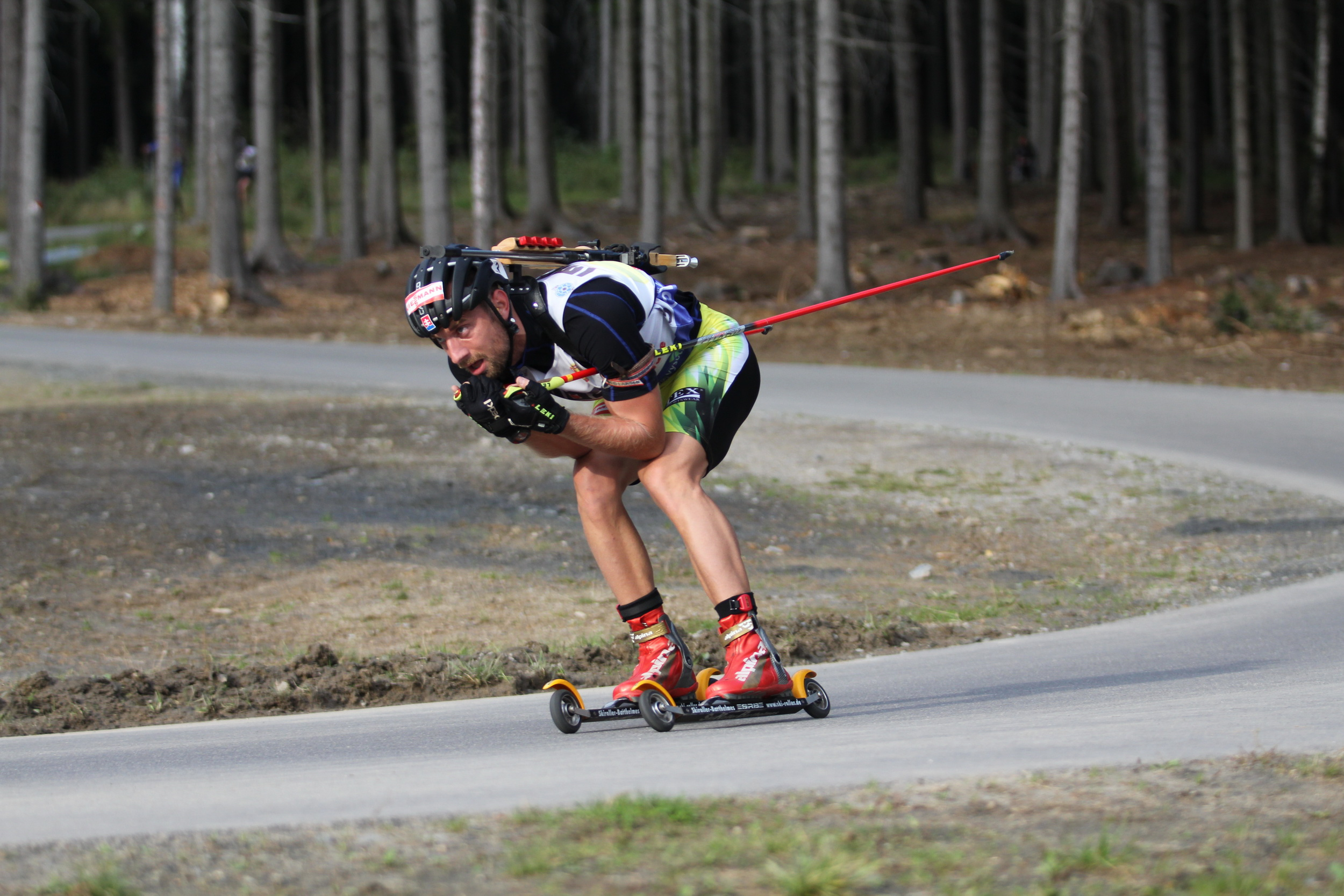 Miroslav Matiaško at Summer Biathlon Worldchampionchip 2011 in Nove Mesto na Morave